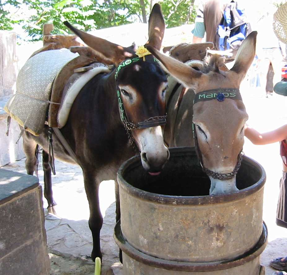 Two Mules at Lindos, Greece